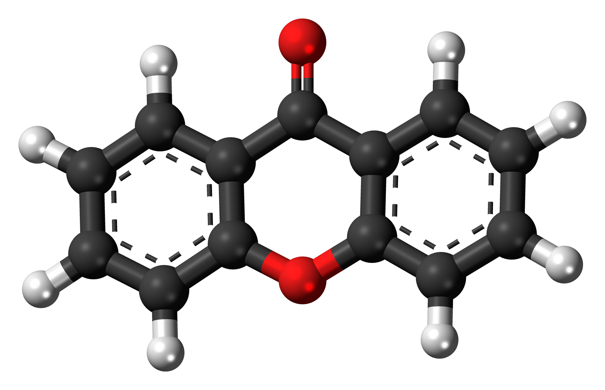 Ball-and-stick model of the xanthone molecule, the parent compound of the xanthonoids chemical series. Colour code: Carbon, C: black Hydrogen, H: white Oxygen, O: red